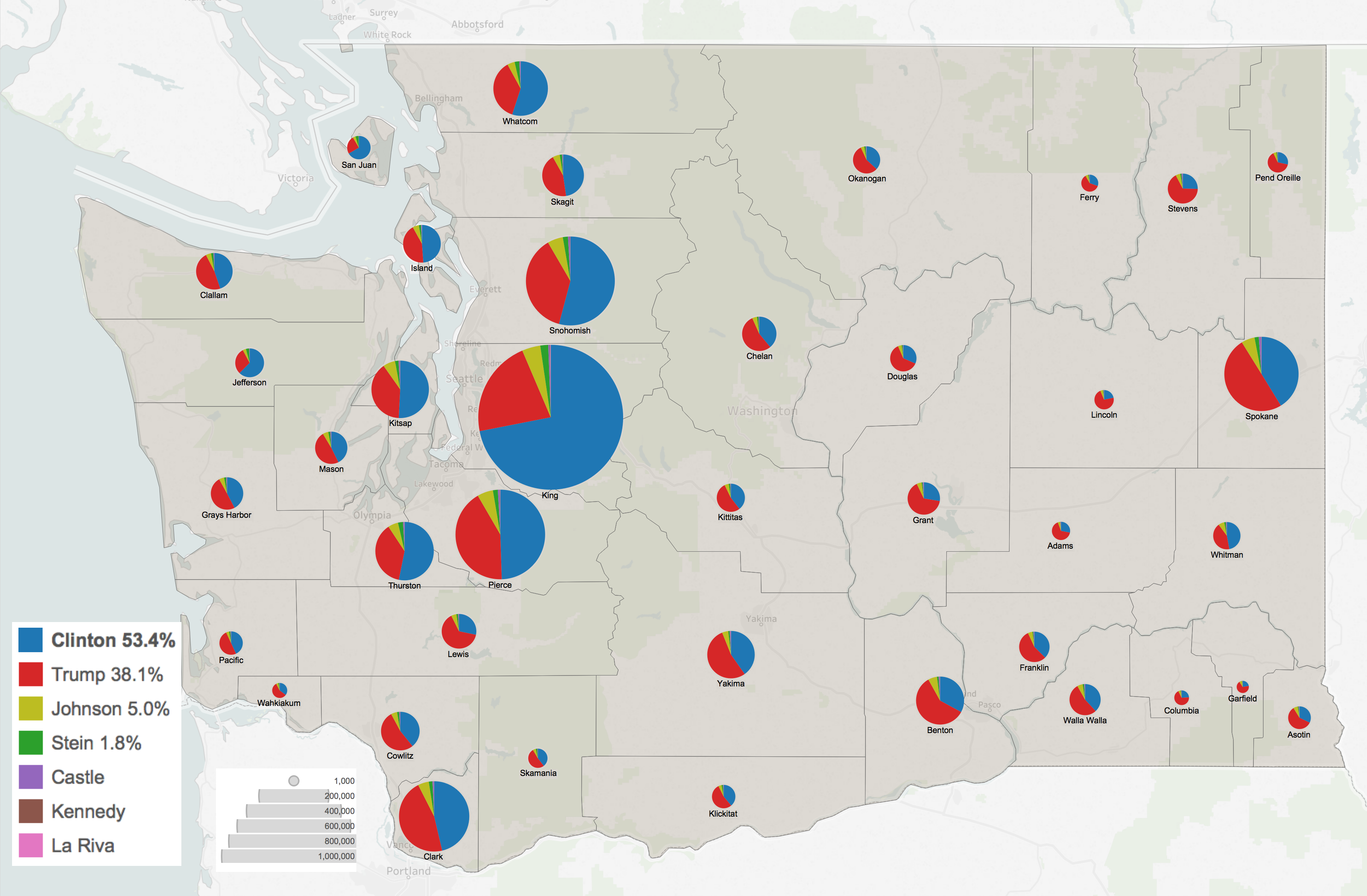 Results of the United States presidential election in Washington, 2016 by county. Number of votes shown by size, candidate shown by color. Source November 8, 2016 General Election Results from the Washington Secretary of State.